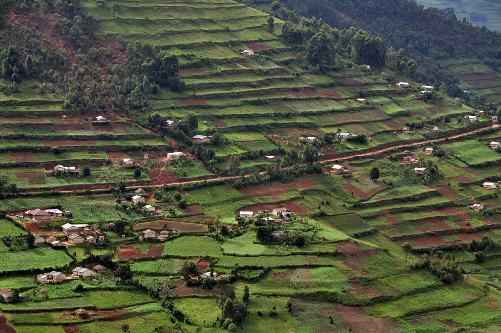 Pic by Neil Palmer (CIAT). Cultivated terraces on a hillside in southwestern Uganda. Please credit accordingly.